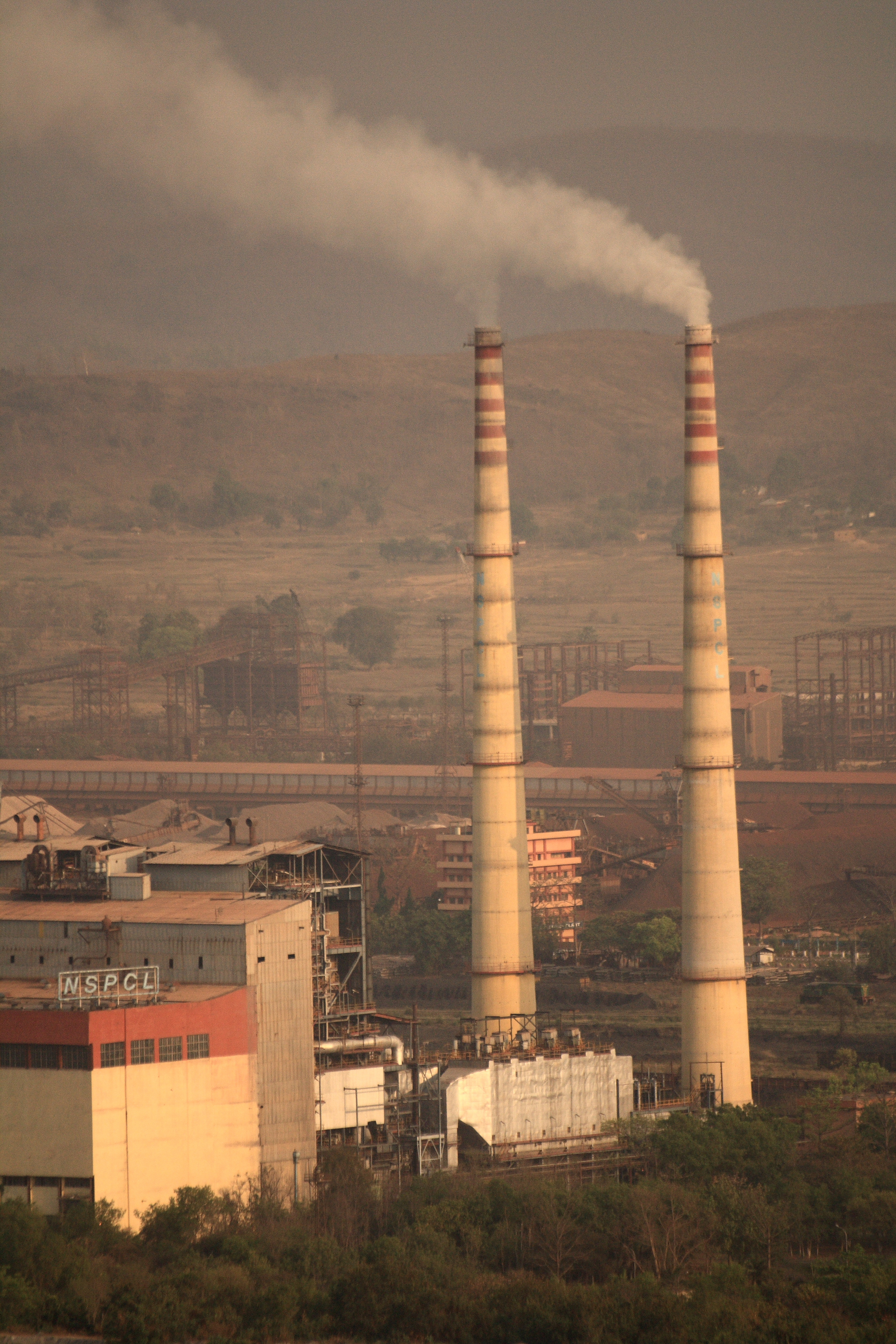 chimneys of Rourkela Steel Plant